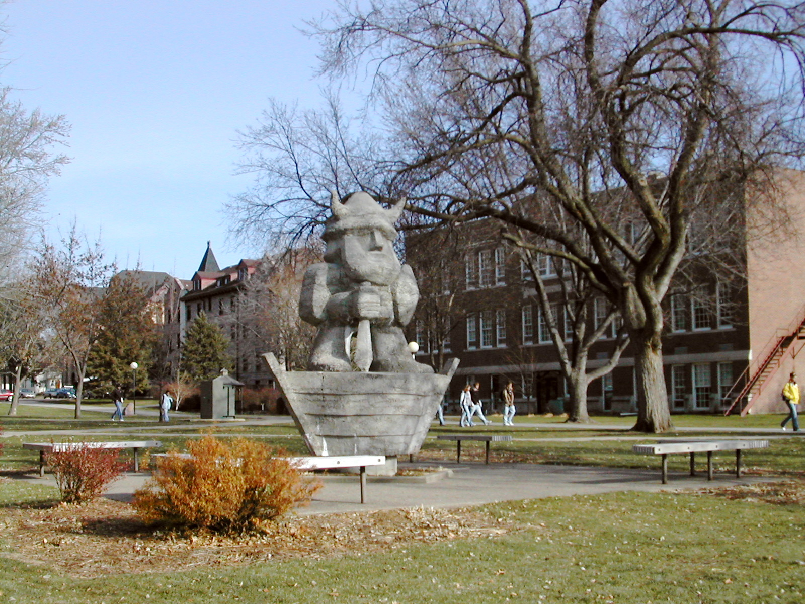 Photo of Ole, Augustana College's [Sioux Falls, South Dakota, USA] mascot with the administration building, East hall, and Old Main visible in the background.